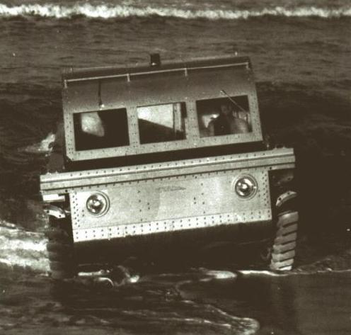 An alligator cones ashore from the sea.